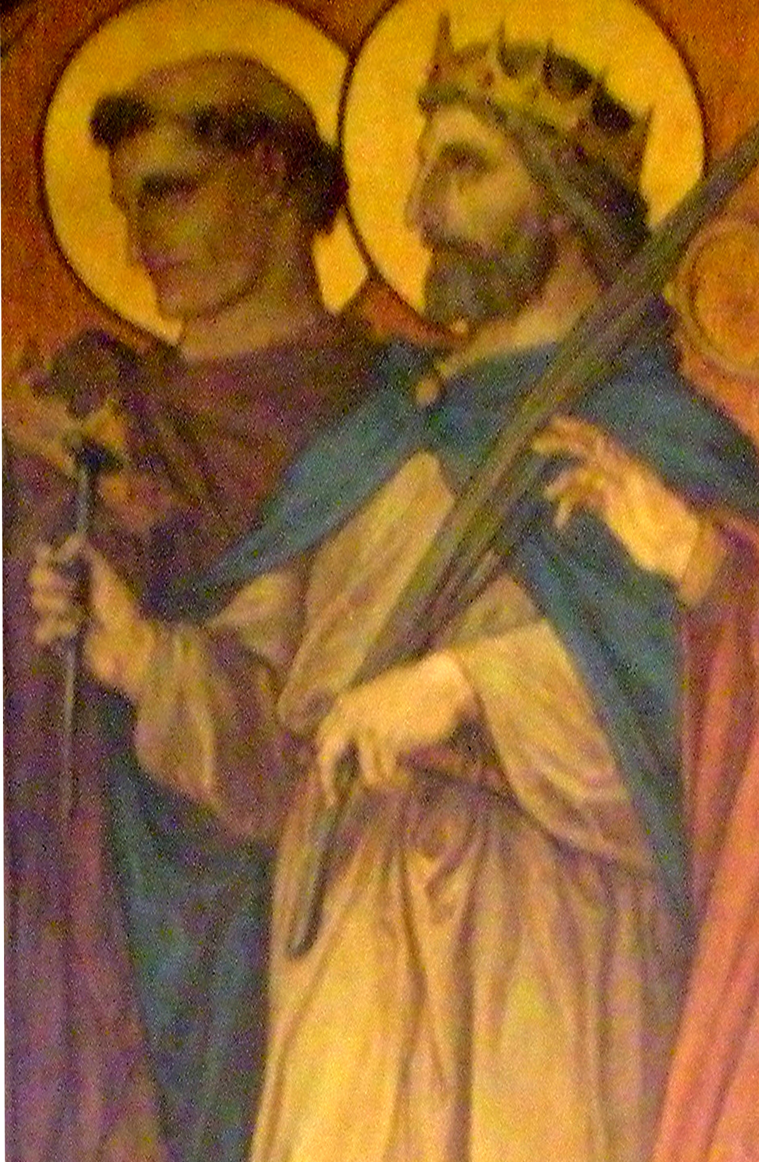 Crop from a fresco by Alphonse Le Henaff, painted in the Cathédrale Saint-Pierre de Rennes between 1871 and 1876, centered on the second king of Brittany, Salomon (Salaün)